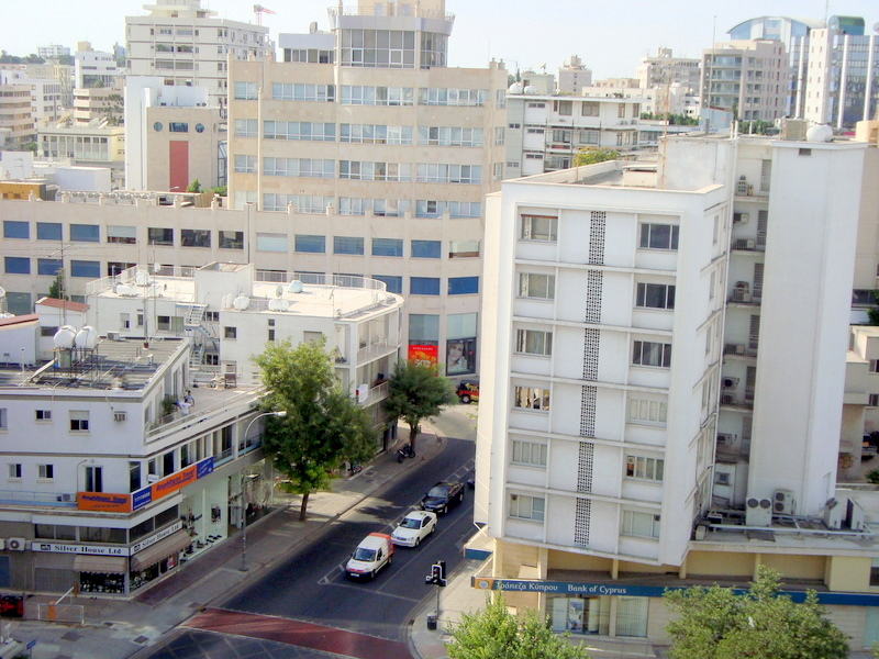 Avenue in Nicosia, Cyprus